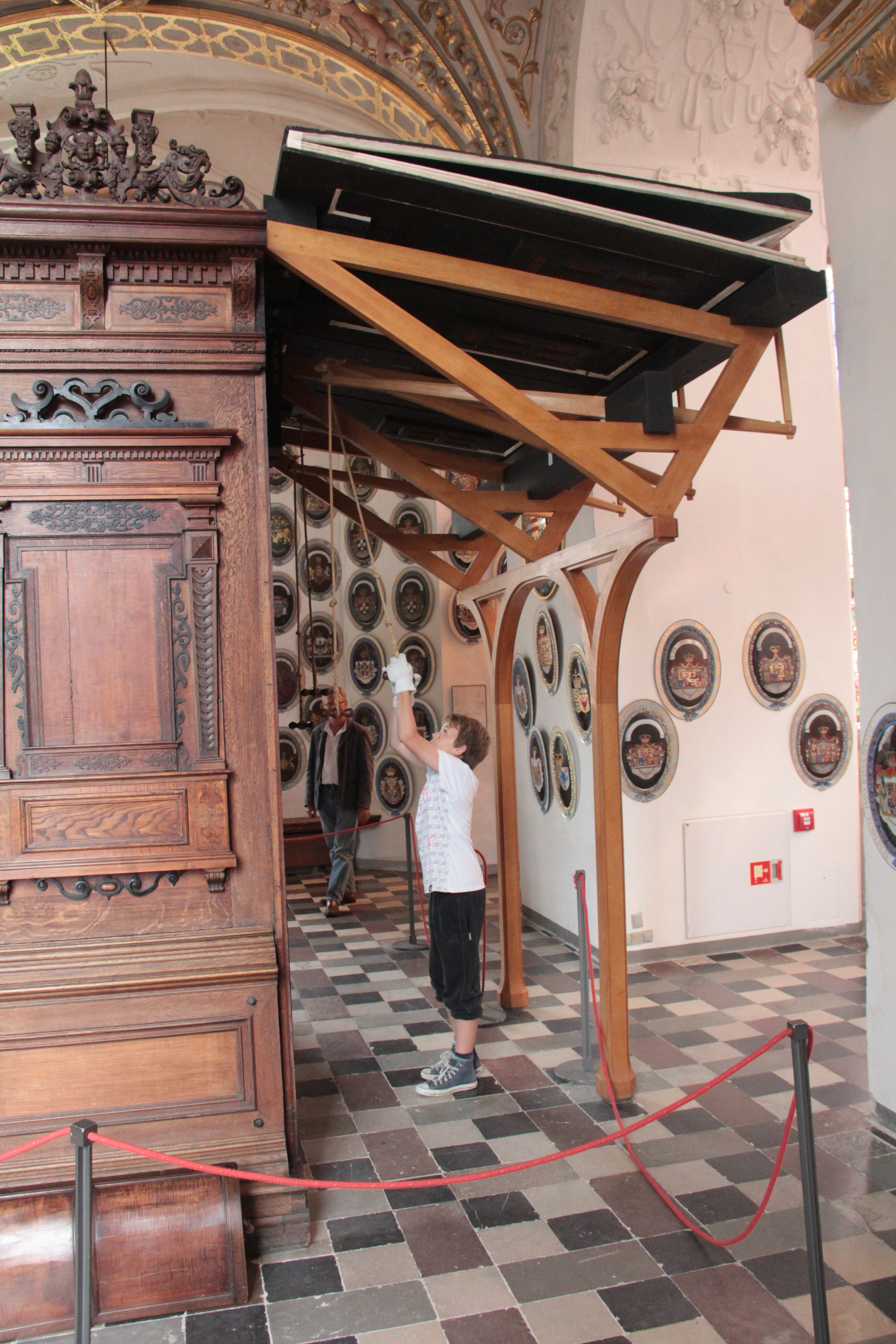 Bellows for Compenius organ at Frederiksborg castle, Denmark